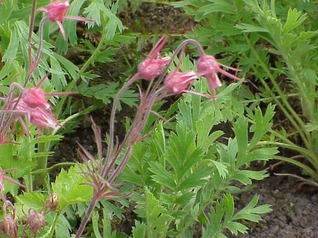 Species: Geum triflorum Family: Rosaceae Image No. 2